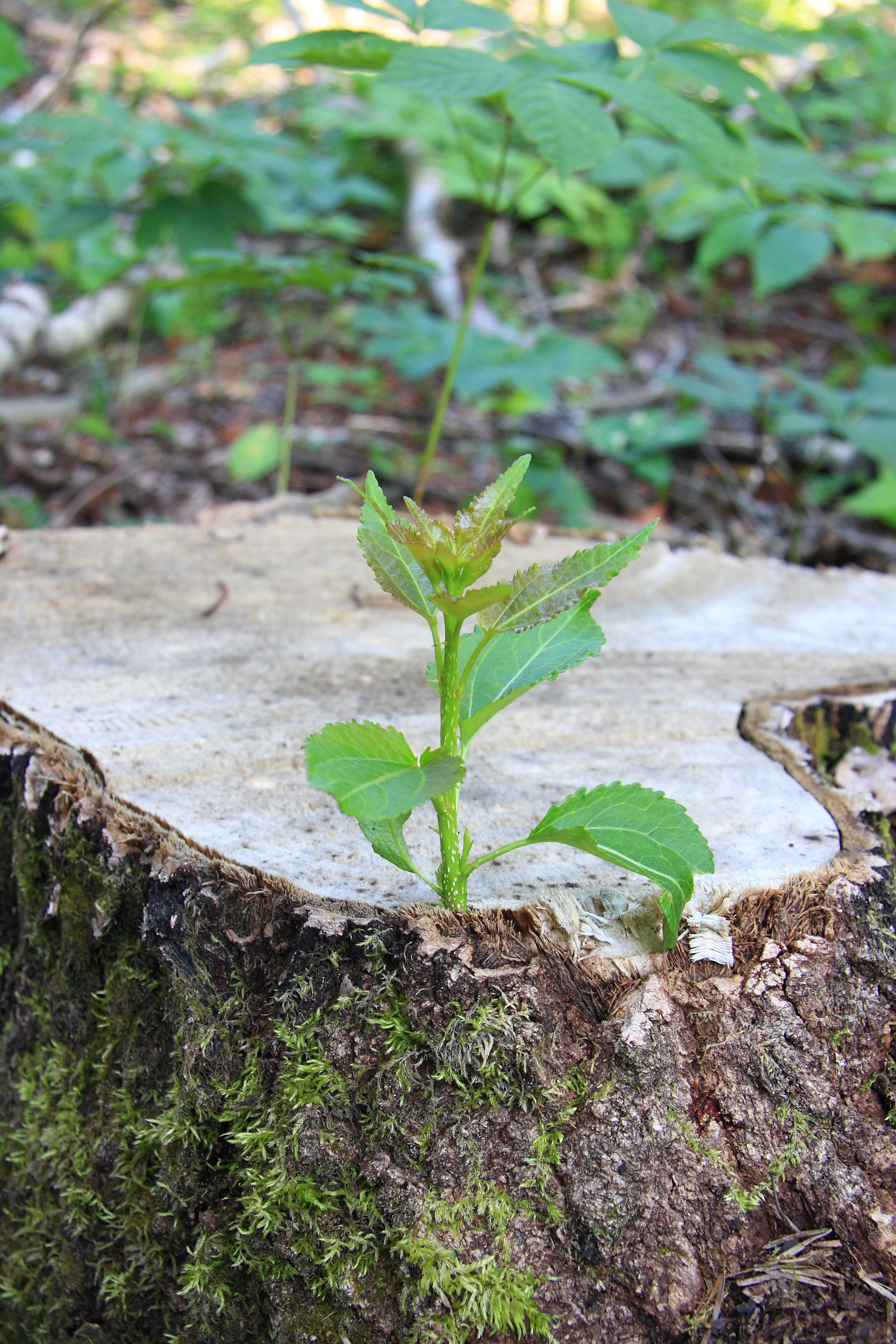 Stem shoot, Sainte-Cécile-de-Masham area, Quebec, Canada